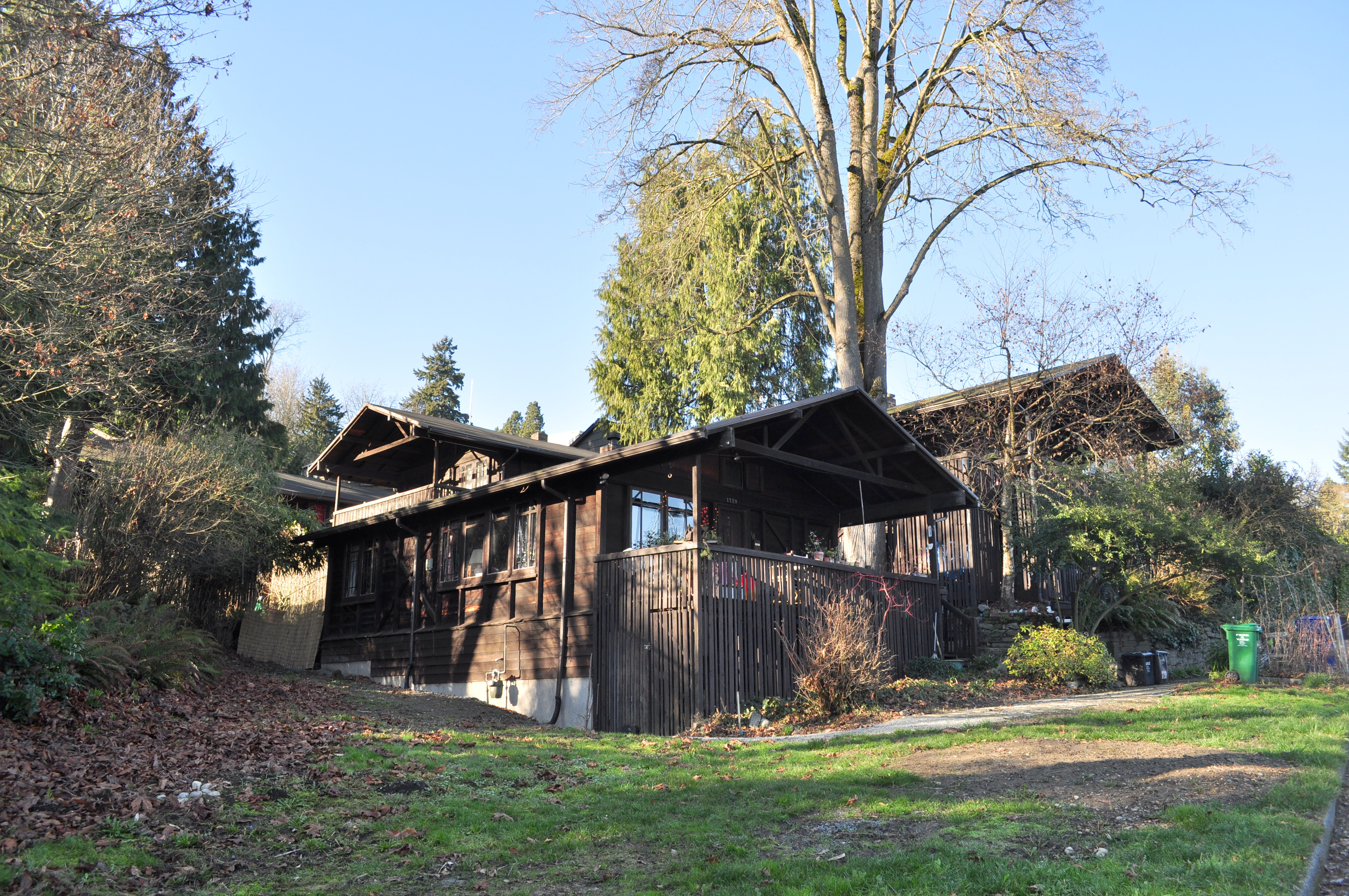 1706–1816 S. Lake Washington Blvd near Colman Park in the Mount Baker neighborhood of Seattle, Washington, USA. Two of the landmark Ellsworth Storey Cottages.